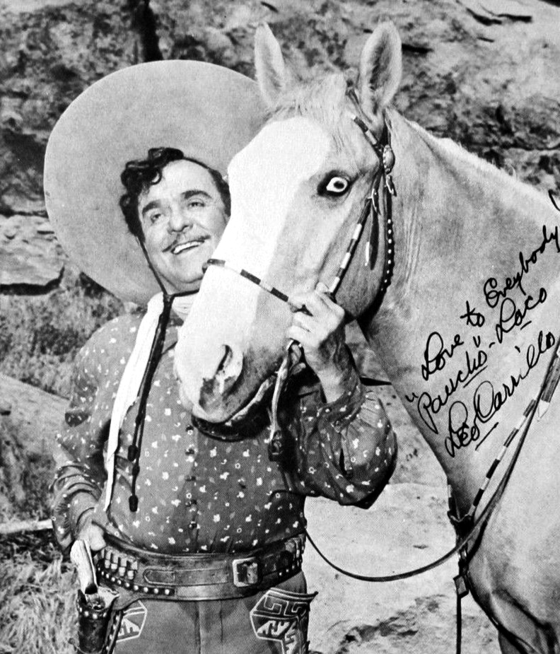 Photo of Leo Carillo as Pancho and his horse, Loco, from the radio and television program The Cisco Kid.